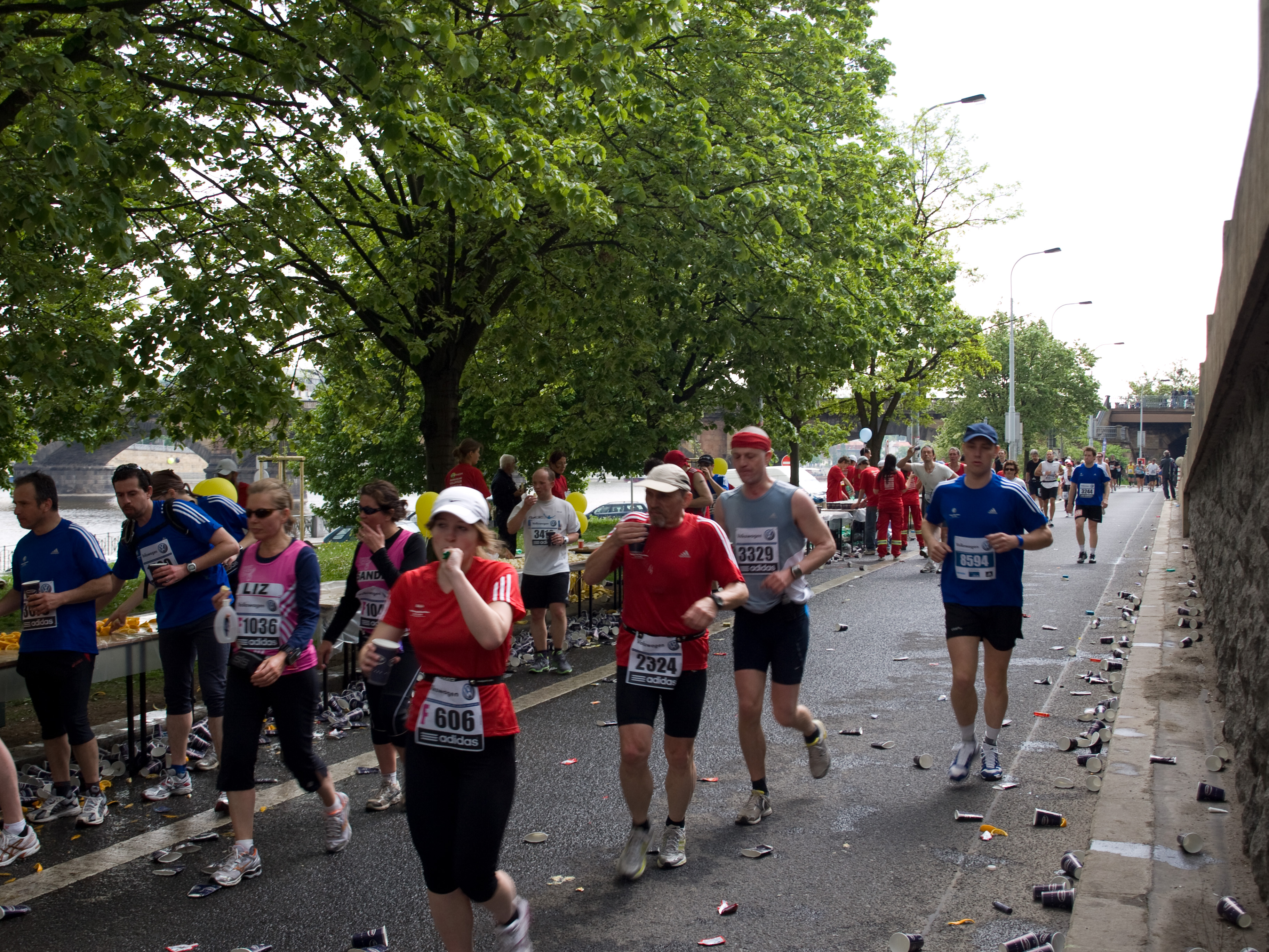 Nábřežní street, cca 31 km, Prague International Marathon 2010